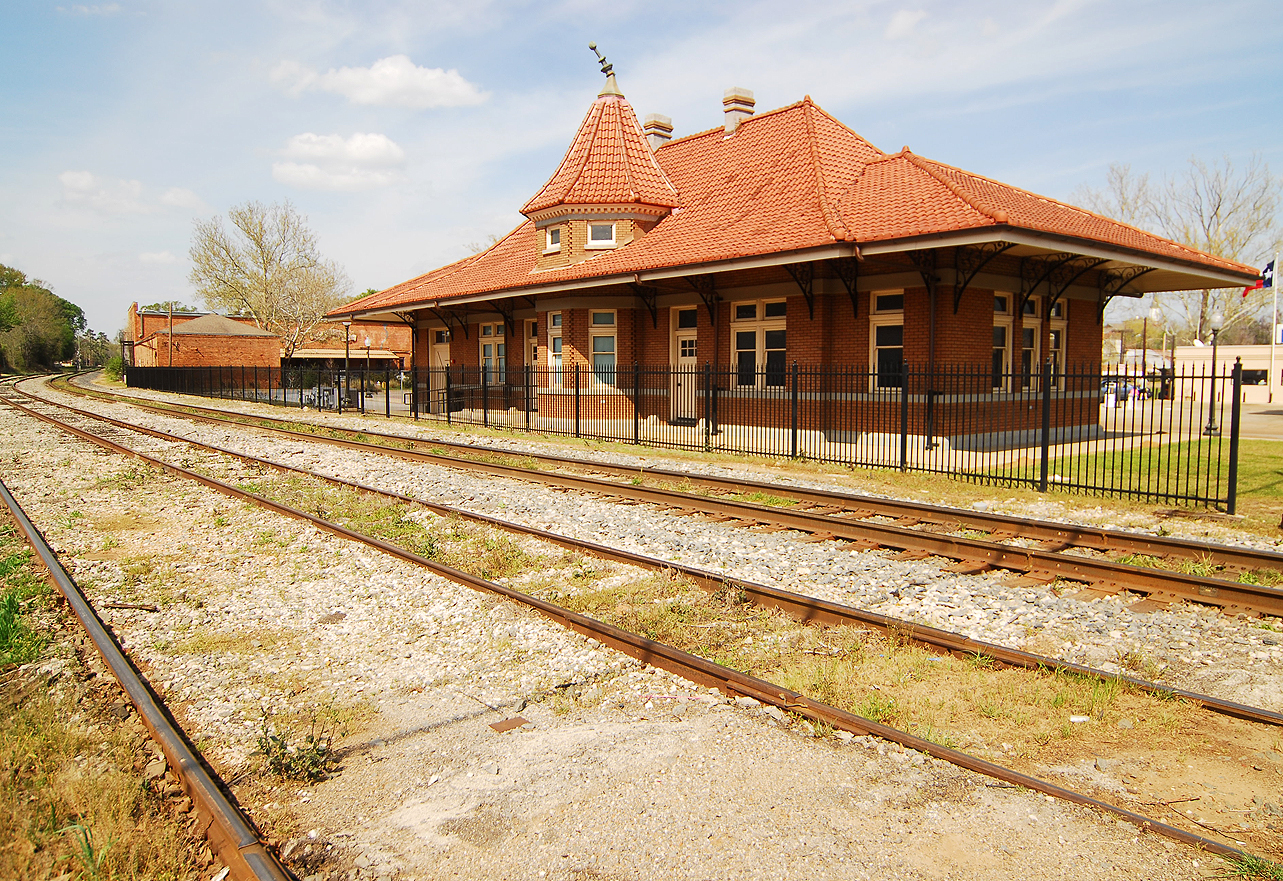 Nacogdoches historic train station.